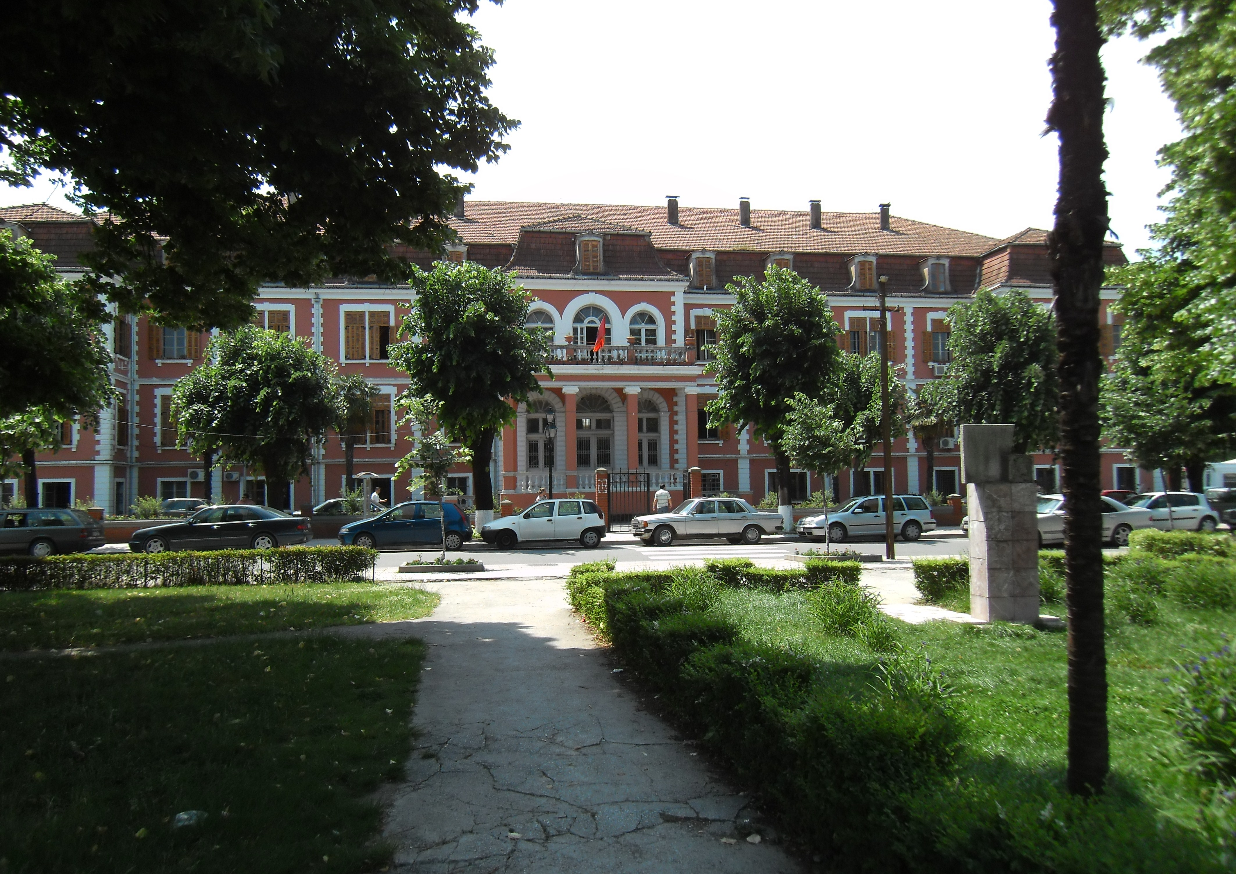 Official building in Shkodra